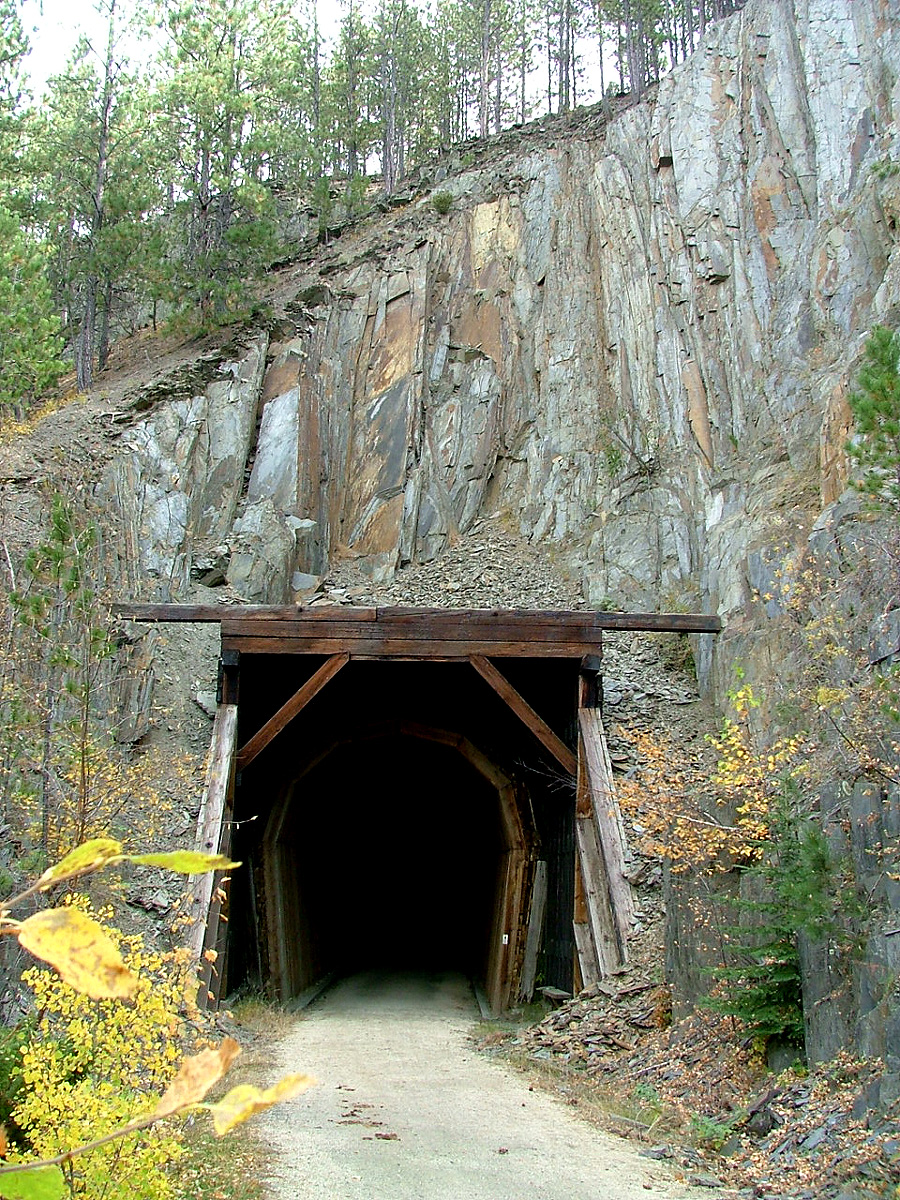 One of the many tunnels along the Mickelson Trail